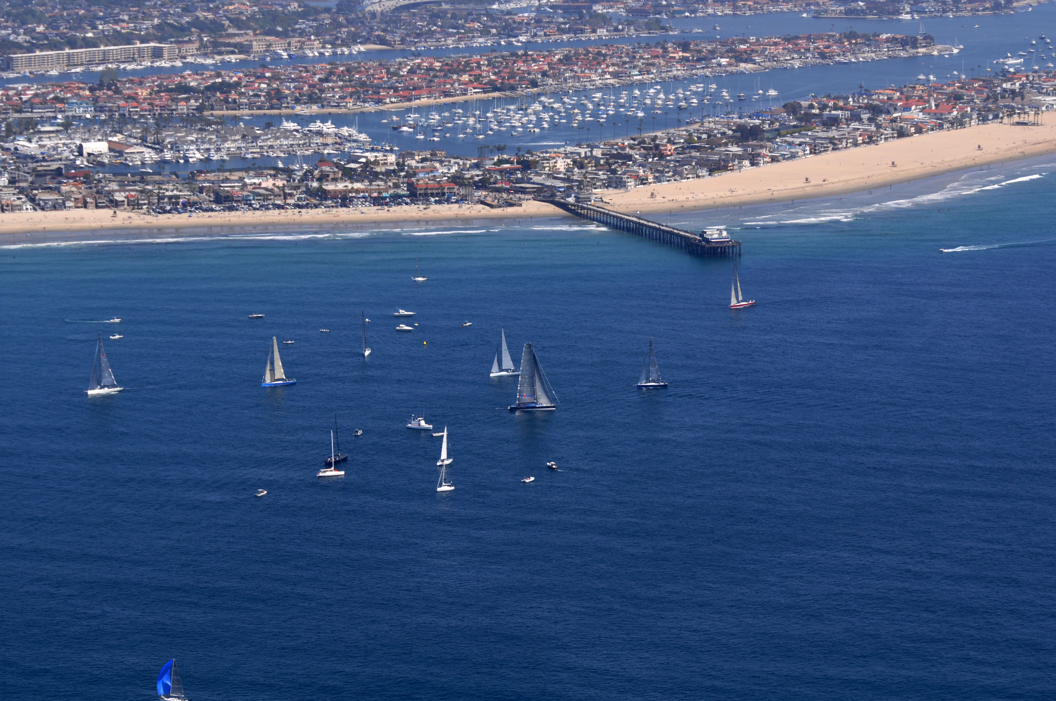 2013 NHYC Newport Beach to Cabo San Lucas yacht race photo D Ramey Logan